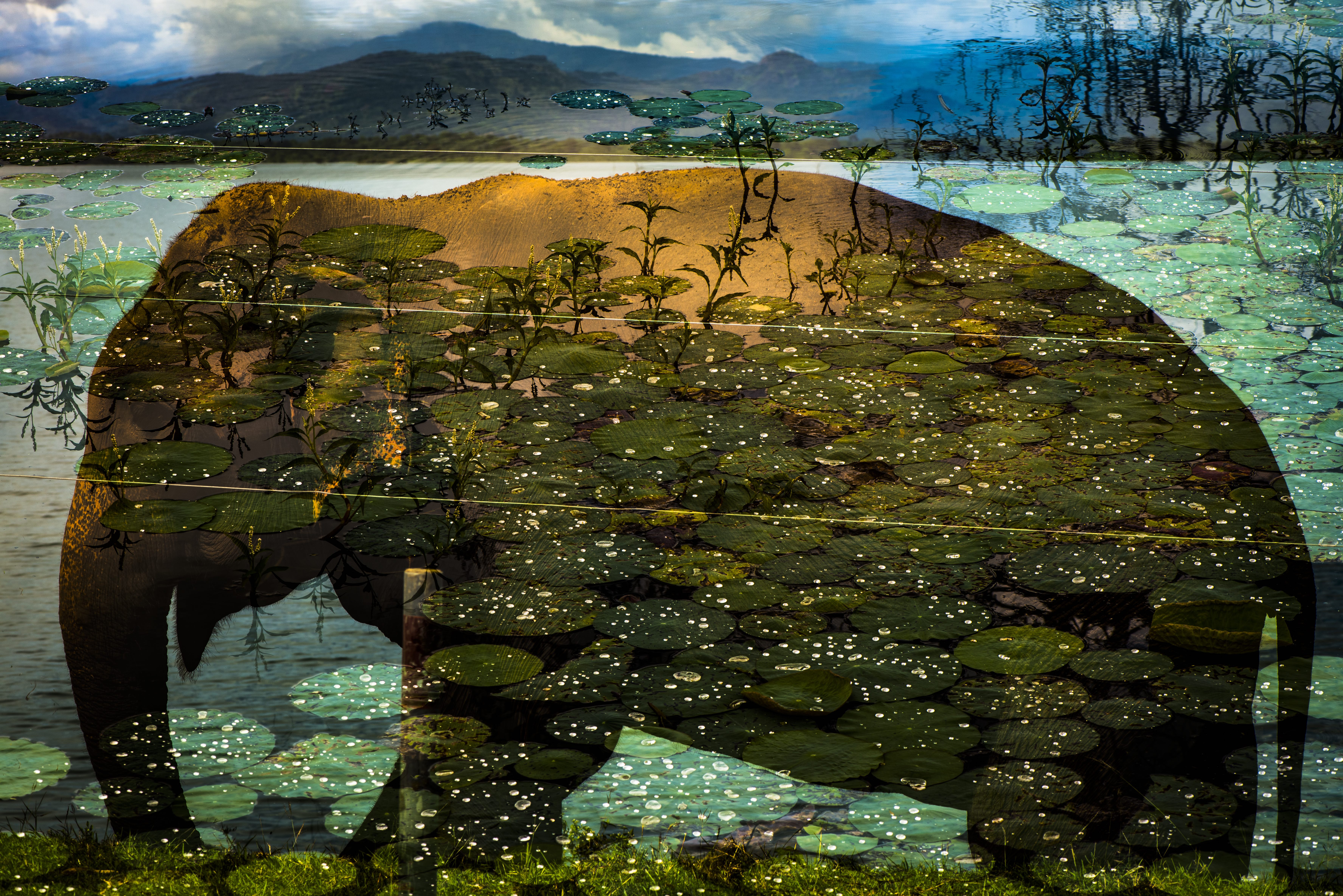 Artwork from the ongoing project Heladotierra, deciphering the fall of the planet Earth.